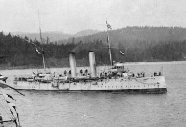 HMCS Rainbow at Esquimalt, B.C. in 1910